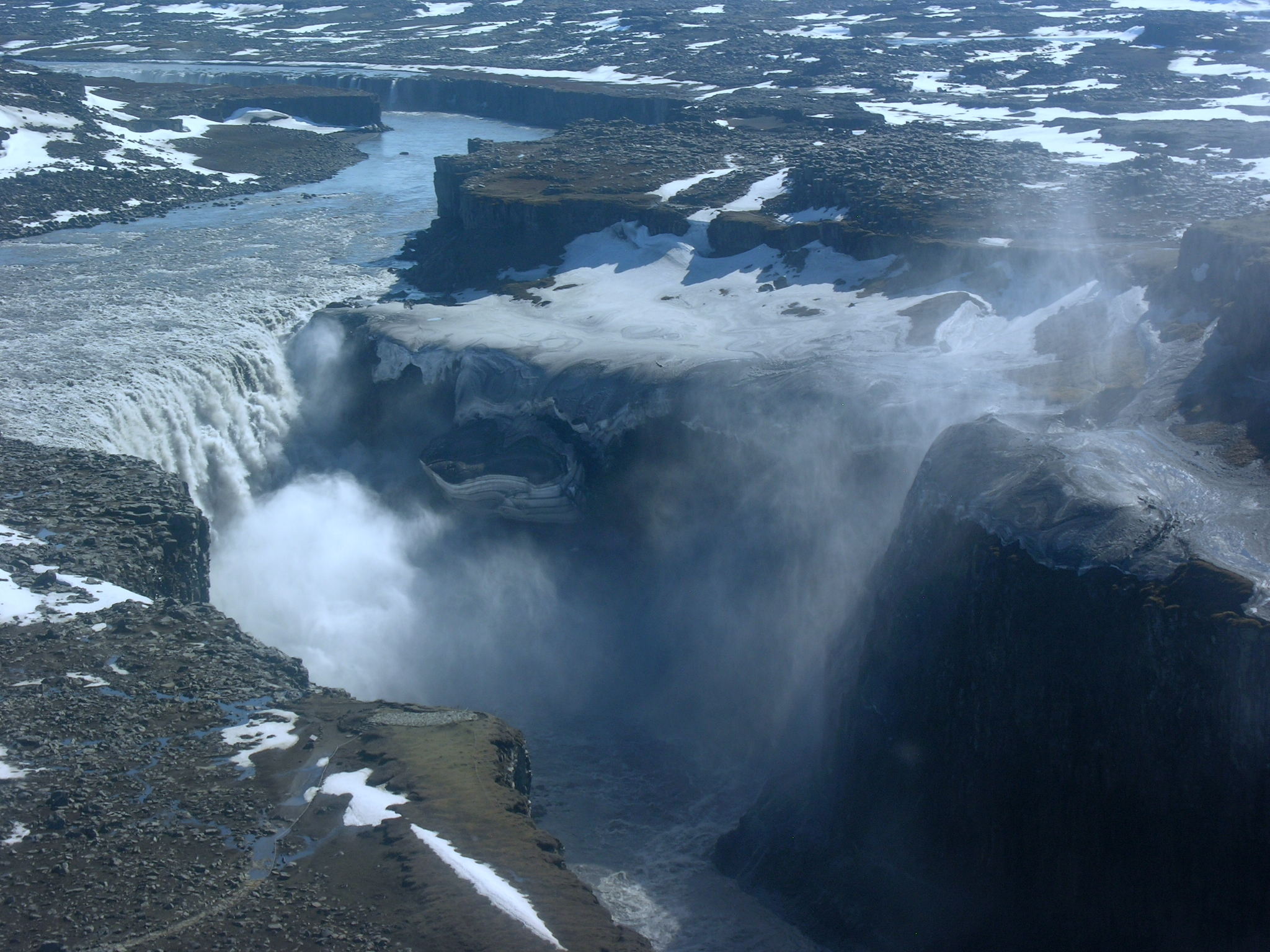 Aerial View of Dettifoss